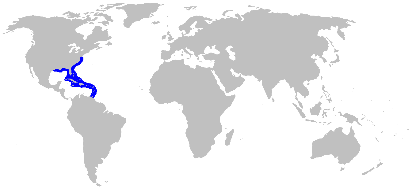 Range of the bluntnose stingray (Dasyatis say), based on [1] with corrections for recent data.